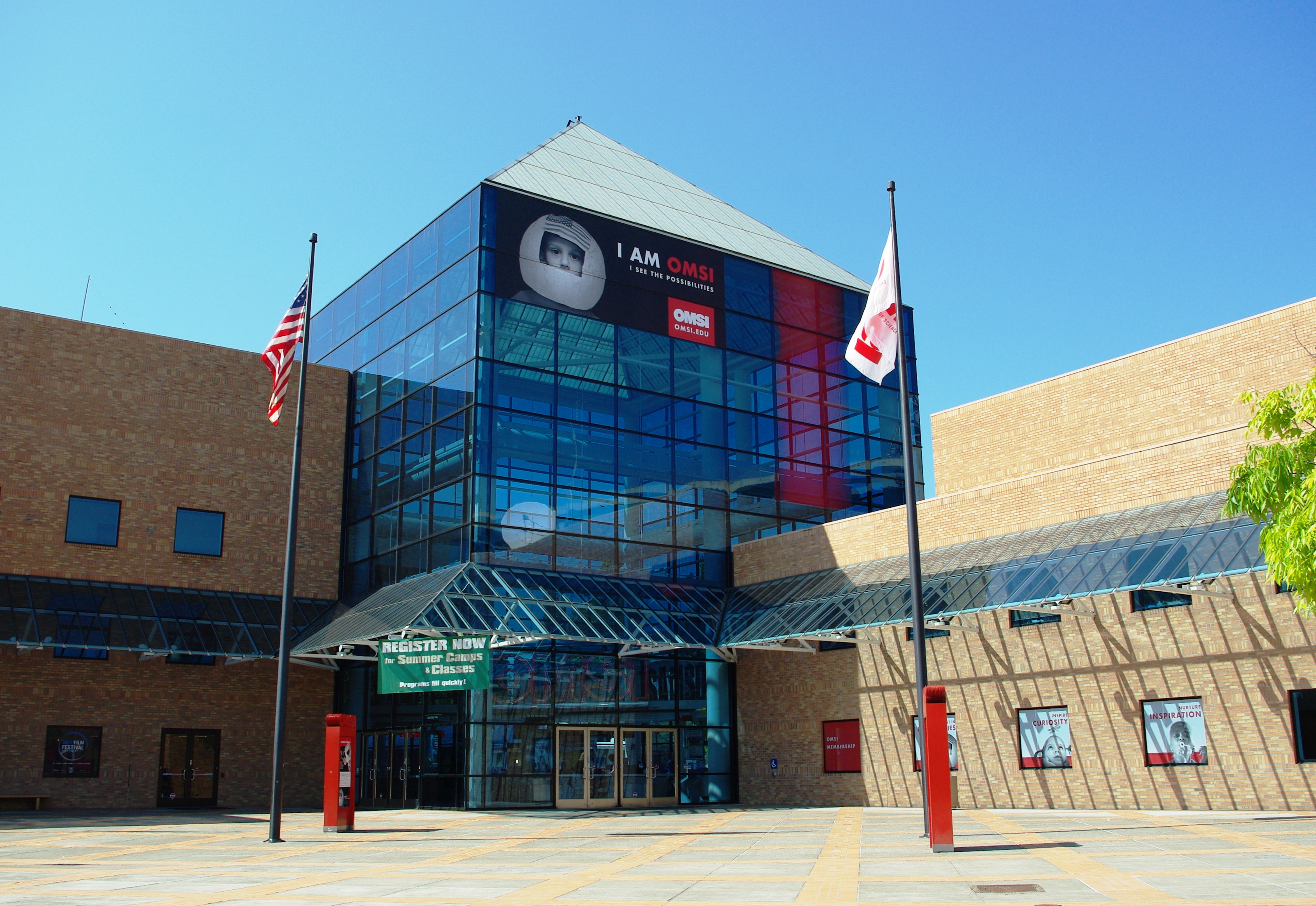 Main entrance to Oregon Museum of Science and Industry.